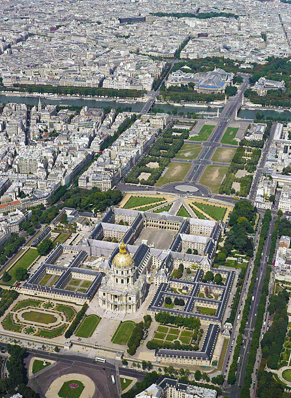 Aerial view of the Hôtel des Invalides and the Esplanade in Paris. In the background, the Seine river with the Alexander III bridge and the Petit and Grand Palais.